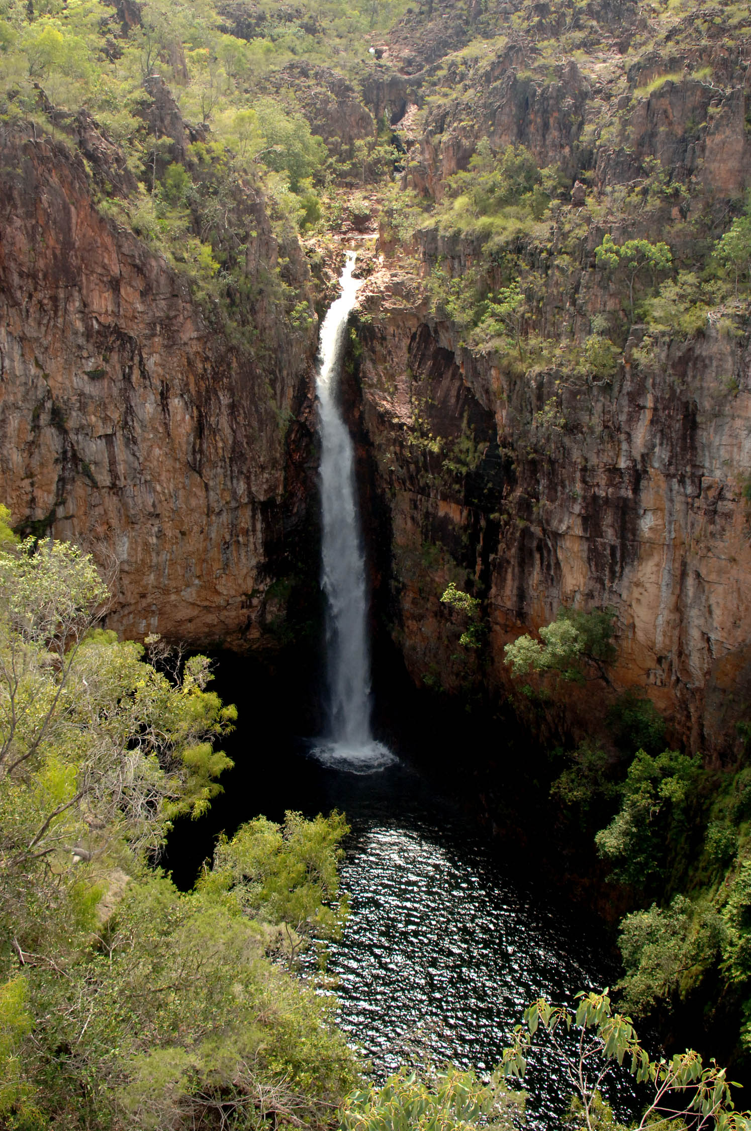 LOCATED SOUTH OF DARWIN, NORTHERN TERRITORY; SEE WIKIPEDIA'S "LITCHFIELD NATIONAL PARK"